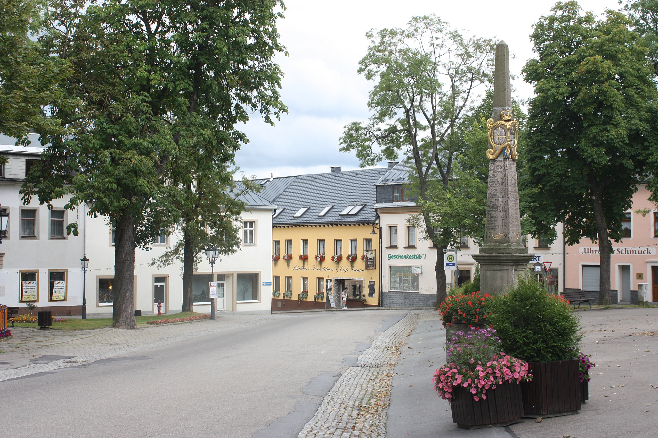 Oberwiesenthal, town square and Saxon post milestone